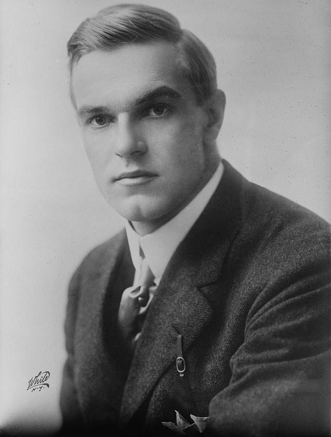 Thomas Chalmers (baritone), Century Opera Company, New York - original image (damaged : see source) cropped & improved